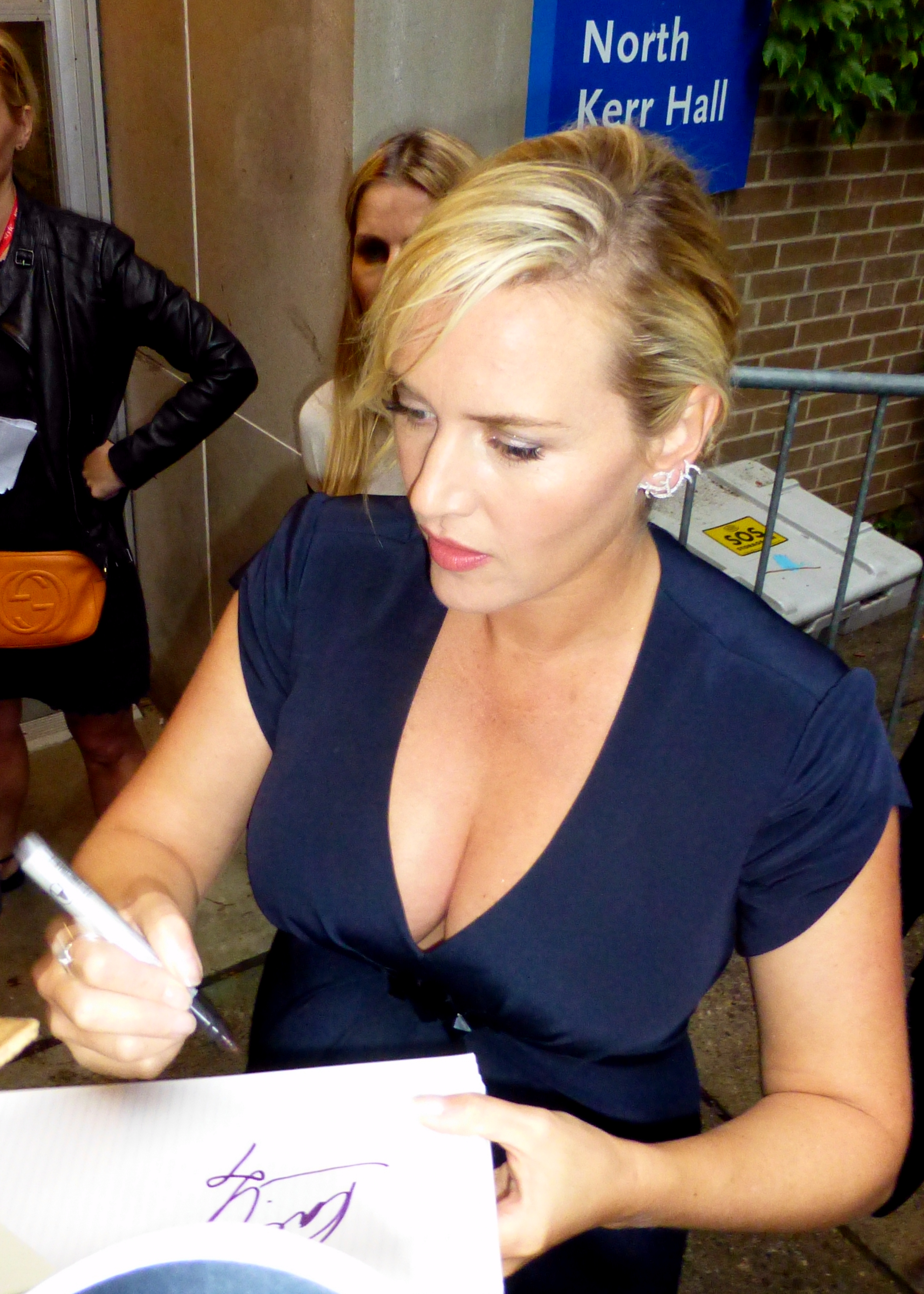 Kate Winslet at the premiere of Labor Day, Toronto Film Festival 2013